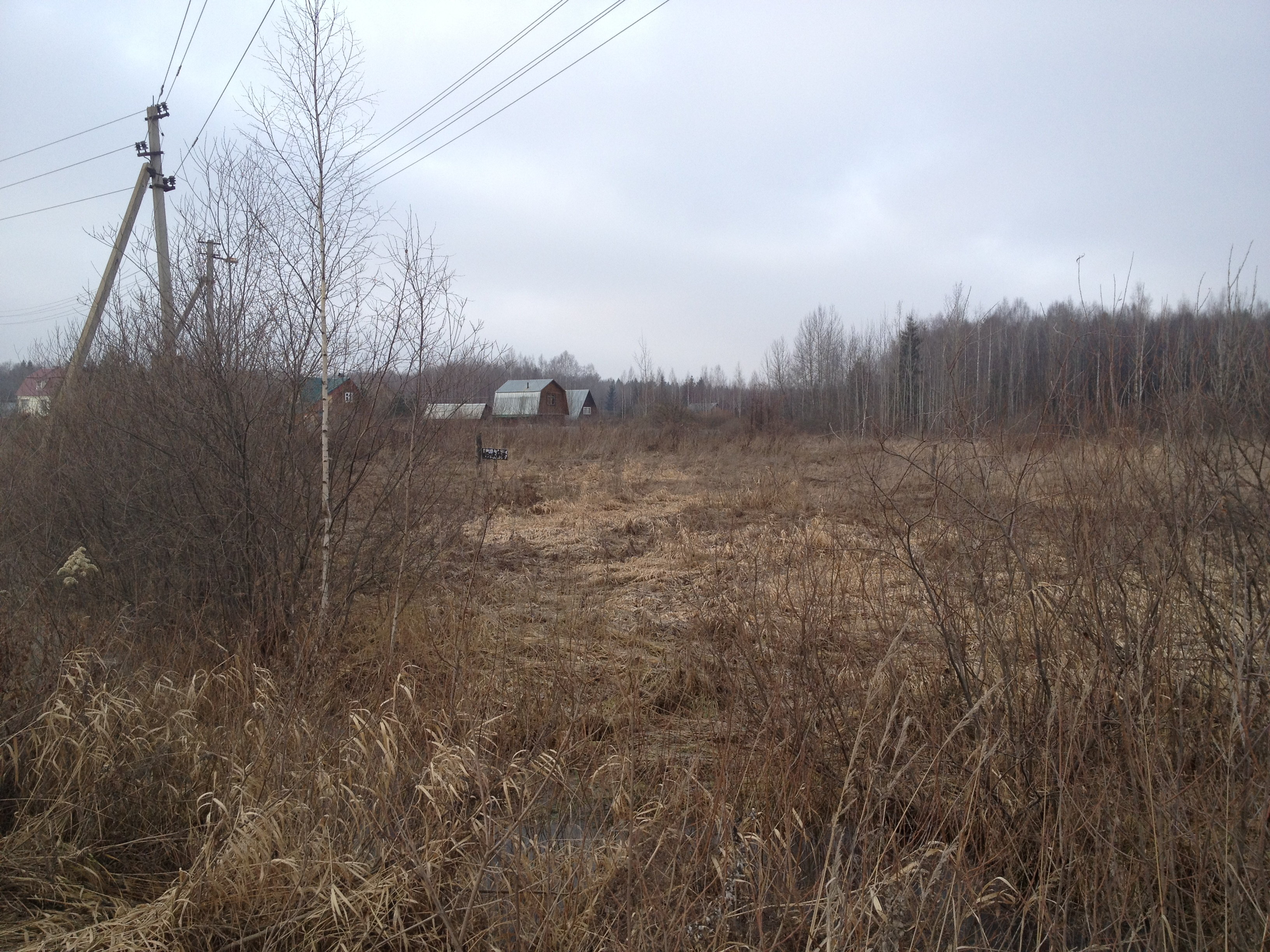 Sorokino (Taldomsky district, Moscow oblast).